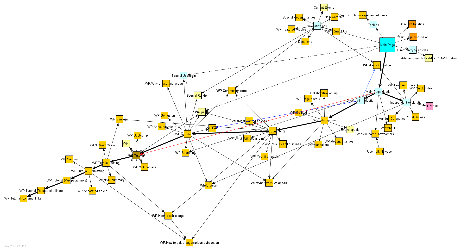 A Directed acyclic graph I've created that shows some of the paths a user may take from the Main Page. Legend: Red line - should not link. Dotted Line - Page section (not really a link) Light Yellow Box - End of the line (an article))